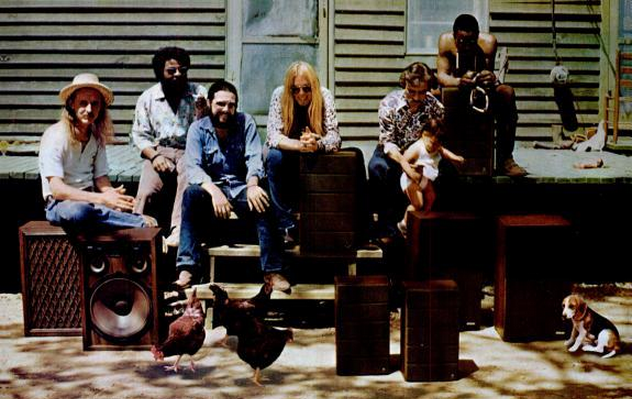 Photo of The Allman Brothers Band